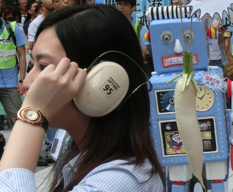 藍可盈 Lam Ho Ying, TVB staff at work, CGO Legco Carpark Square, Tim Mei Avenue, Admiralty, Hong Kong